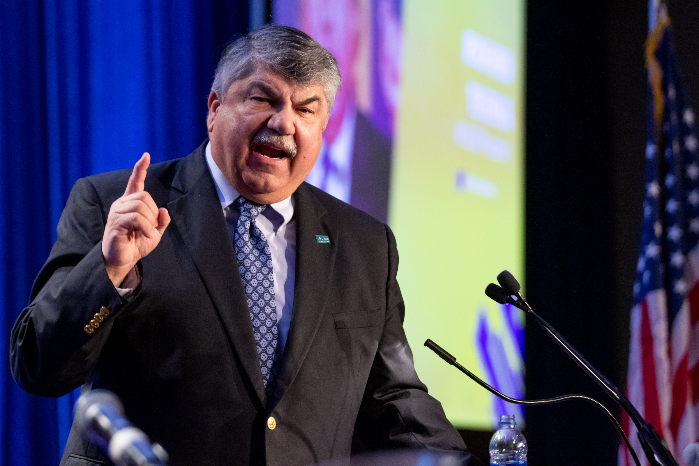 AFGE leaders and activists gather in Washington, D.C. for the union's annual Legislative Conference. photo by Keith Mellnick